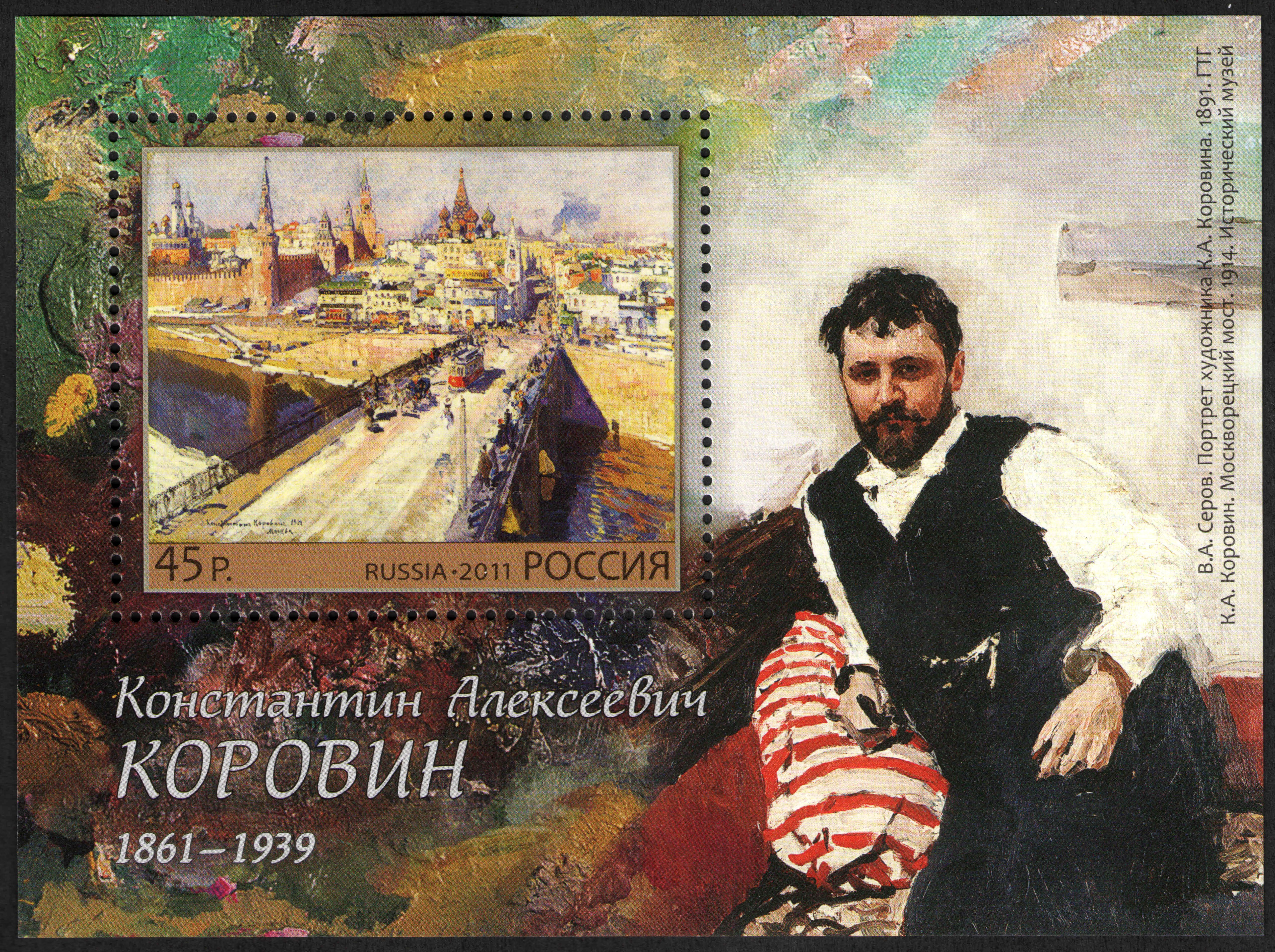 150th birth anniversary of the Russian painter Konstantin Korovin (1861–1939).The miniature sheet of Russia, 1 stamp×45.00 Rubles, 21 November 2011, PTC Marka Catalogue No 1544, Michel No 1776 (Block155). Coated paper. Offset printing. Perforation: frame 12½×12. The size of the souvenir sheet: 105×77 mm. The size of the stamp: 50×42 mm. Print run: 90,000.The stamp: Moskvoretsky Bridge by Konstantin Korovin. 1914.The margins of the miniature sheet: The Portrait of the Painter Konstantin Korovin by Valentin Serov. 1891.